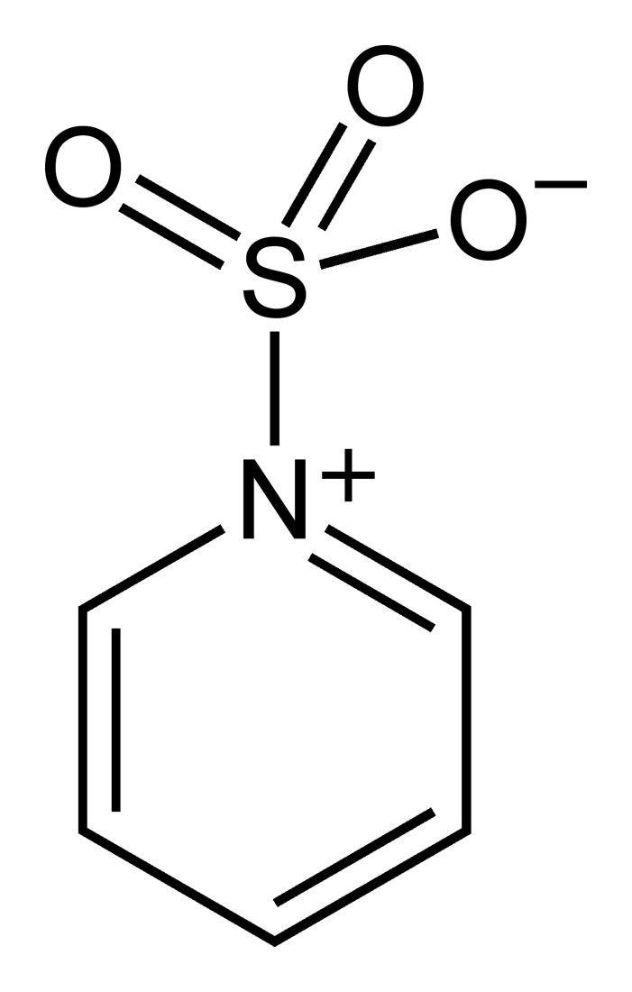 Skeletal formula of the sulfur trioxide-pyridine adduct